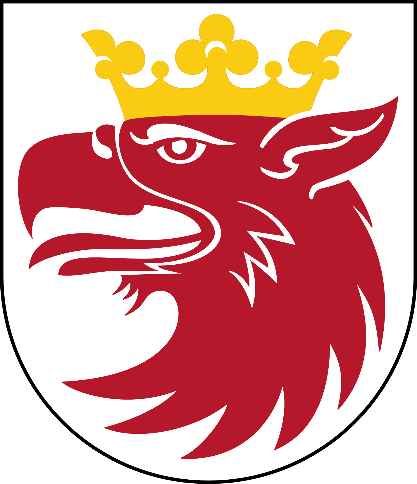 Coat of arms of the municipality of Malmö, Sweden. Painted by Vladimir A. Sagerlund when he was the heraldic artist at the National Archives of Sweden (Riksarkivet). This representation of a coat of arms is potentially different from the one used by the armiger (municipality or organisation) in question. = ⇑“Sable, a lionrampant or” This coat of arms was drawn based on its blazon which – being a written description – is free from copyright. Any illustration conforming with the blazon of the arms is considered to be heraldically correct. Thus several different artistic interpretations of the same coat of arms can exist. The design officially used by the armiger is likely protected by copyright, in which case it cannot be used here.Individual representations of a coat of arms, drawn from a blazon, may have a copyright belonging to the artist, but are not necessarily derivative works. Further information: Commons:Coats of arms and Template:Coa blazon